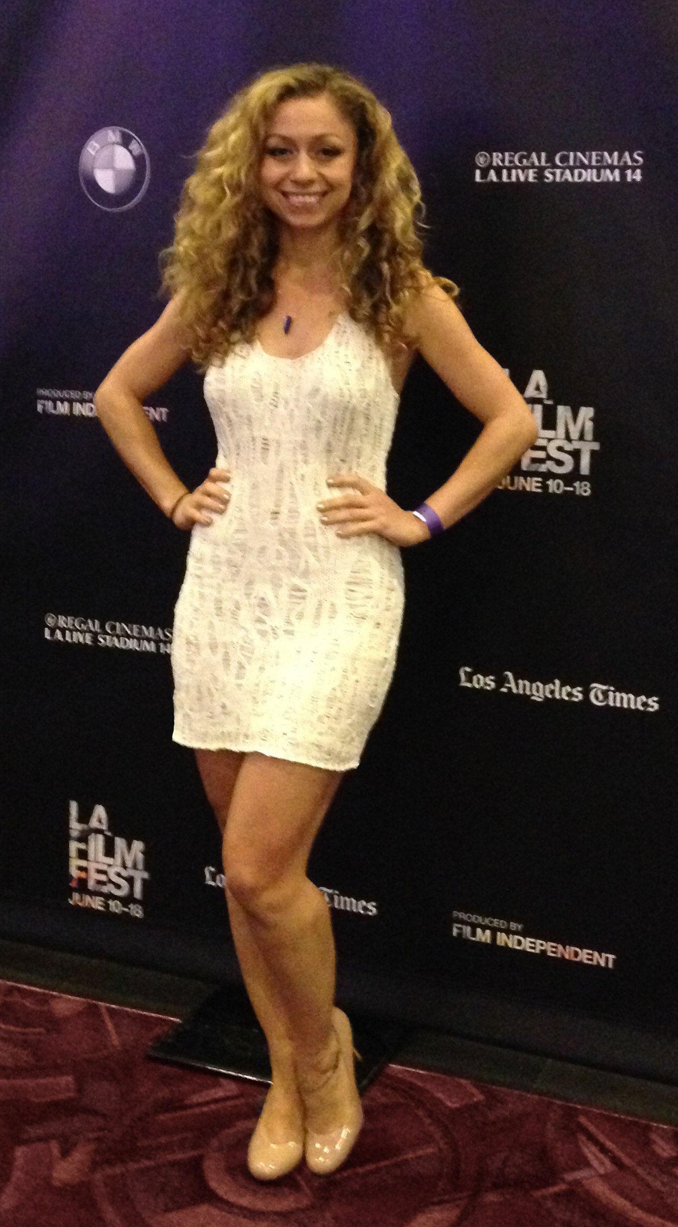 Natalia Fedner Attends 2015 LA Film Fest